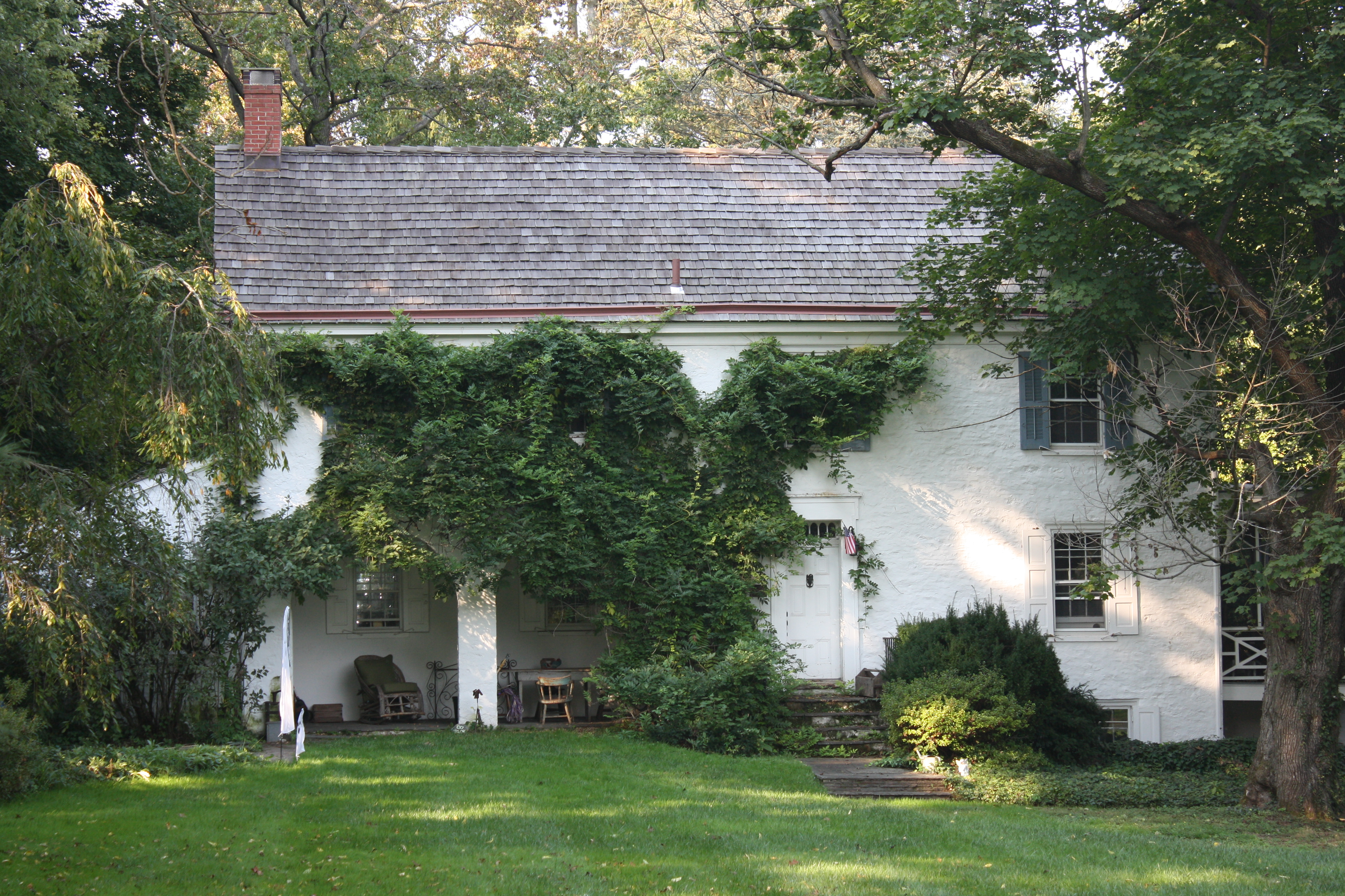 John and Phineas Hough House, 20 Moyer Rd., Lower Makefield Township, PA. Object location40° 13′ 42.96″ N, 74° 50′ 00.96″ W